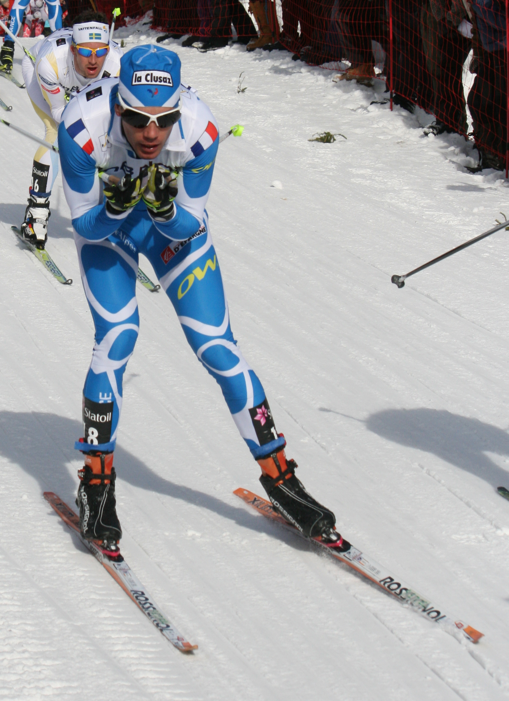 FIS Nordic World Ski Championships 2011 in Oslo. Vincent Vittoz (France) at men's 50 km.